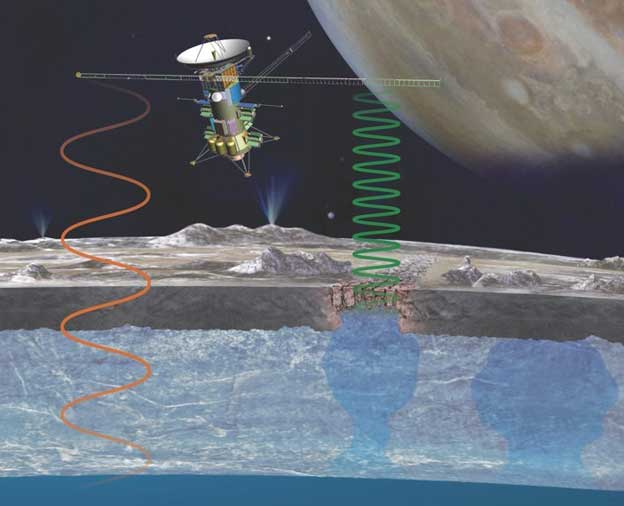 Radar for Europa Assessment and Sounding: Ocean to Near-surface (REASON)— the principal investigator is Donald Blankenship of the University of Texas. This dual-frequency ice penetrating radar instrument is designed to characterize and sound Europa's ice crust from the near-surface to the ocean, revealing the hidden structure of Europa's ice shell and potential water pockets within. To ensure effective penetration of Europa's ice, the radar will use two frequencies, 60 MHz and 9 MHz. This instrument will be built by JPL and the University of Iowa